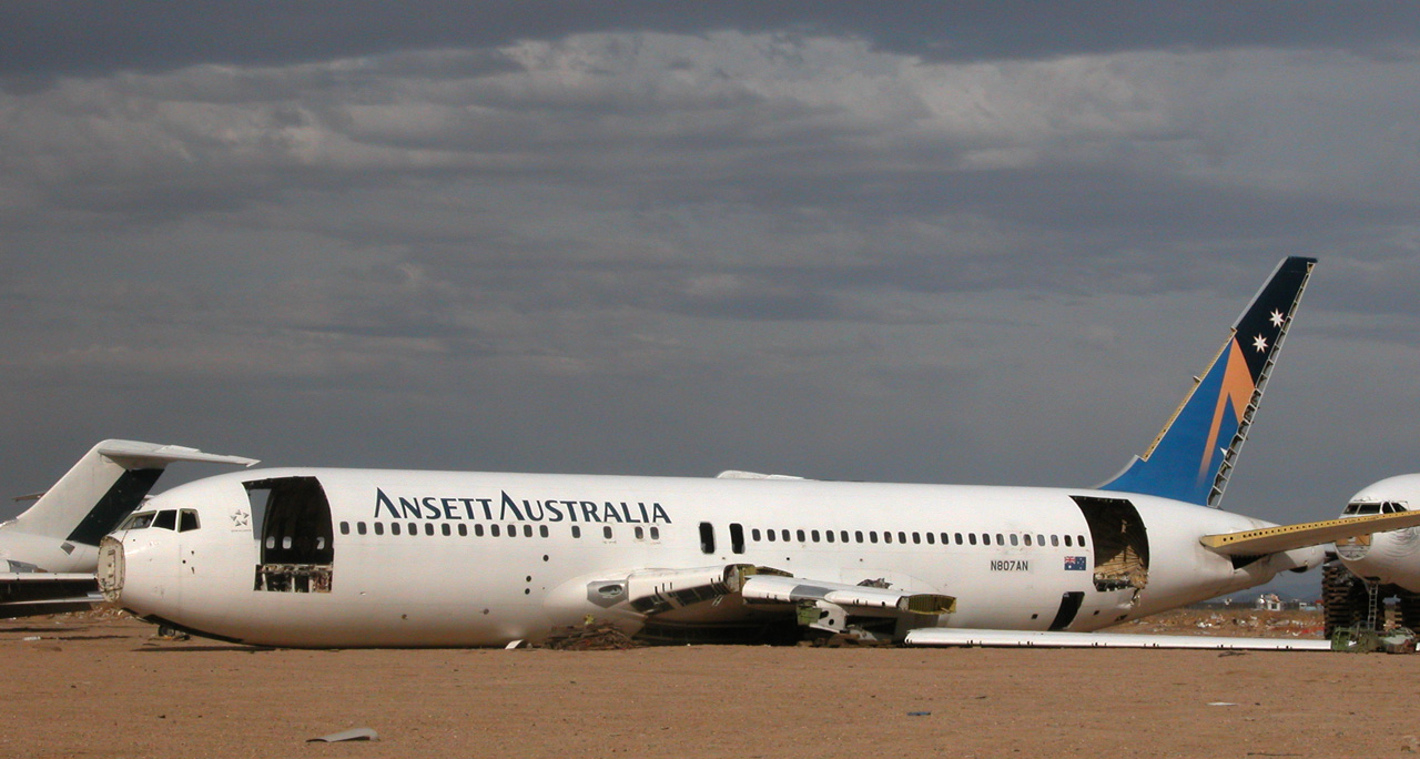 Retired Ansett Australia Boeing 767-204 (ex VH-RMO, N807AN) being cut up for scrap at the Mojave Airport.